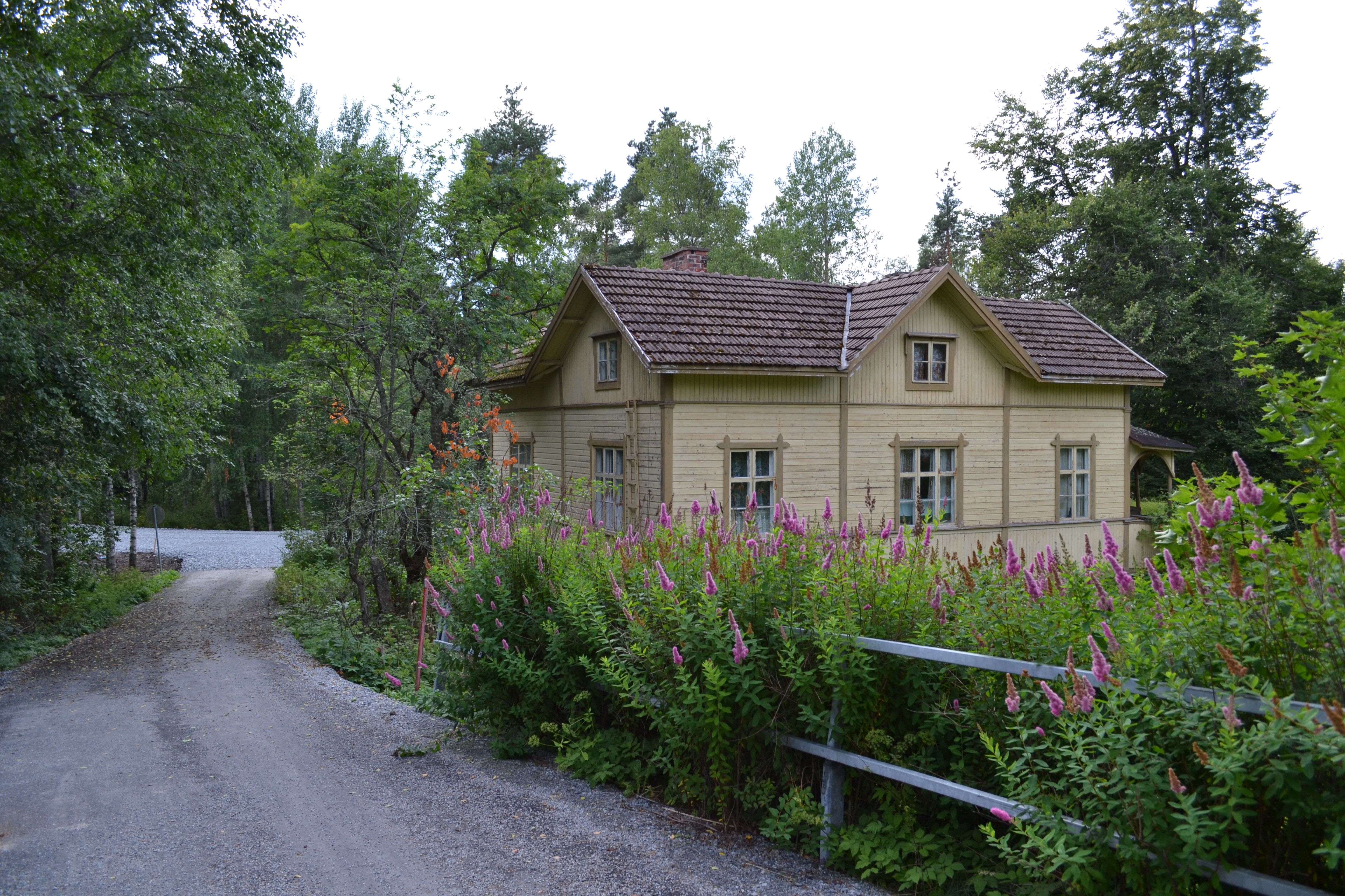 Old house on the street Tavaratie